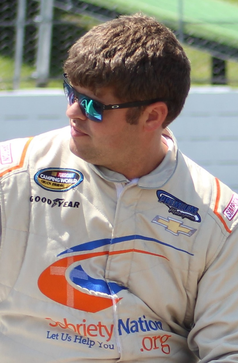 Drivers from the NASCAR Camping World Truck Series at Pocono Raceway in 2018. From left to right: Wendell Chavous, Ray Ciccarelli, Todd Peck, Camden Murphy, Norm Benning.